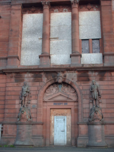 No Reception Former reception entrance at the Govan Shipyards.